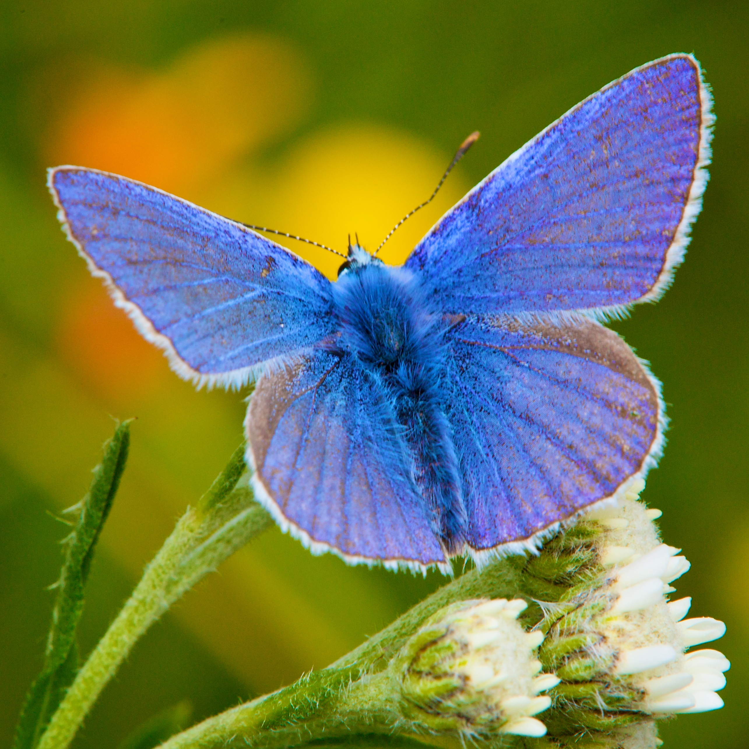 Common blue butterfly